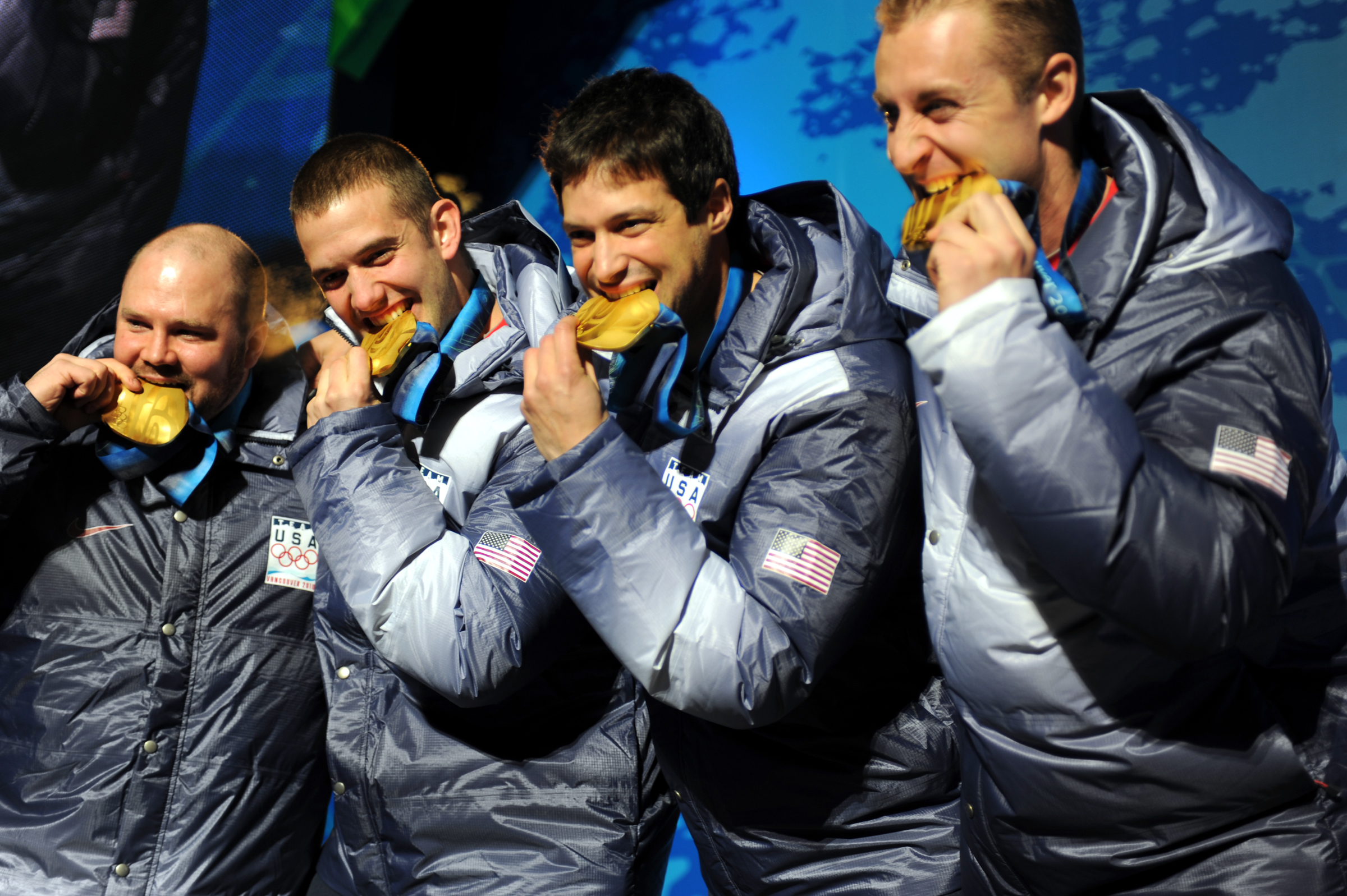 Former U.S. Army World Class Athlete Program bobsledder Steven Holcomb and teammates Justin Olsen, Steve Mesler and Curt Tomasevicz bite their gold medals Saturday night at Whistler Medals Plaza after winning the Olympic four-man bobsled crown earlier in the day at Whistler Sliding Centre at the 2010 Winter Olympics.